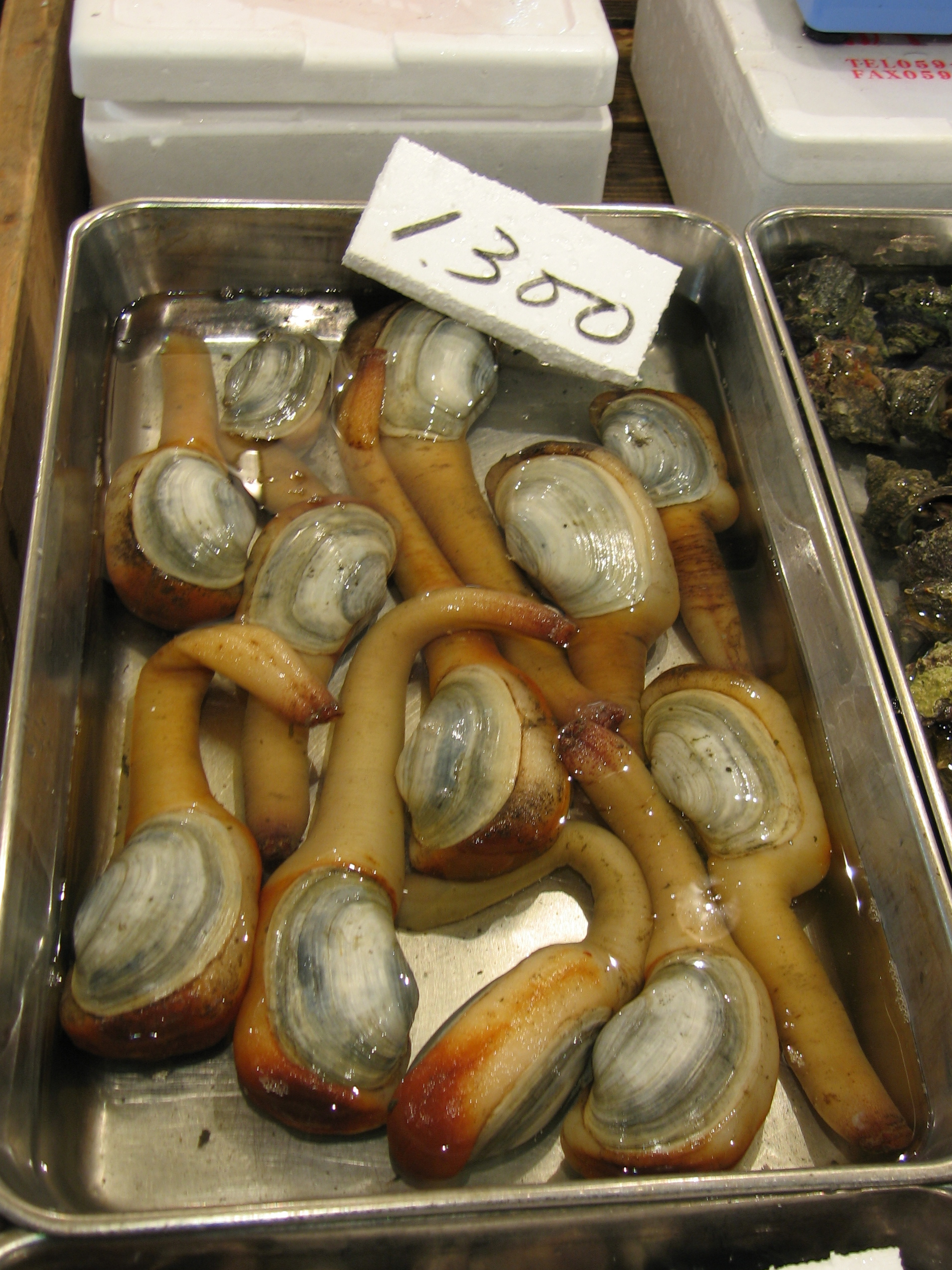 Mirugai (Jumbo Clam) for sale at Tsukiji fish market in Tokyo, Japan